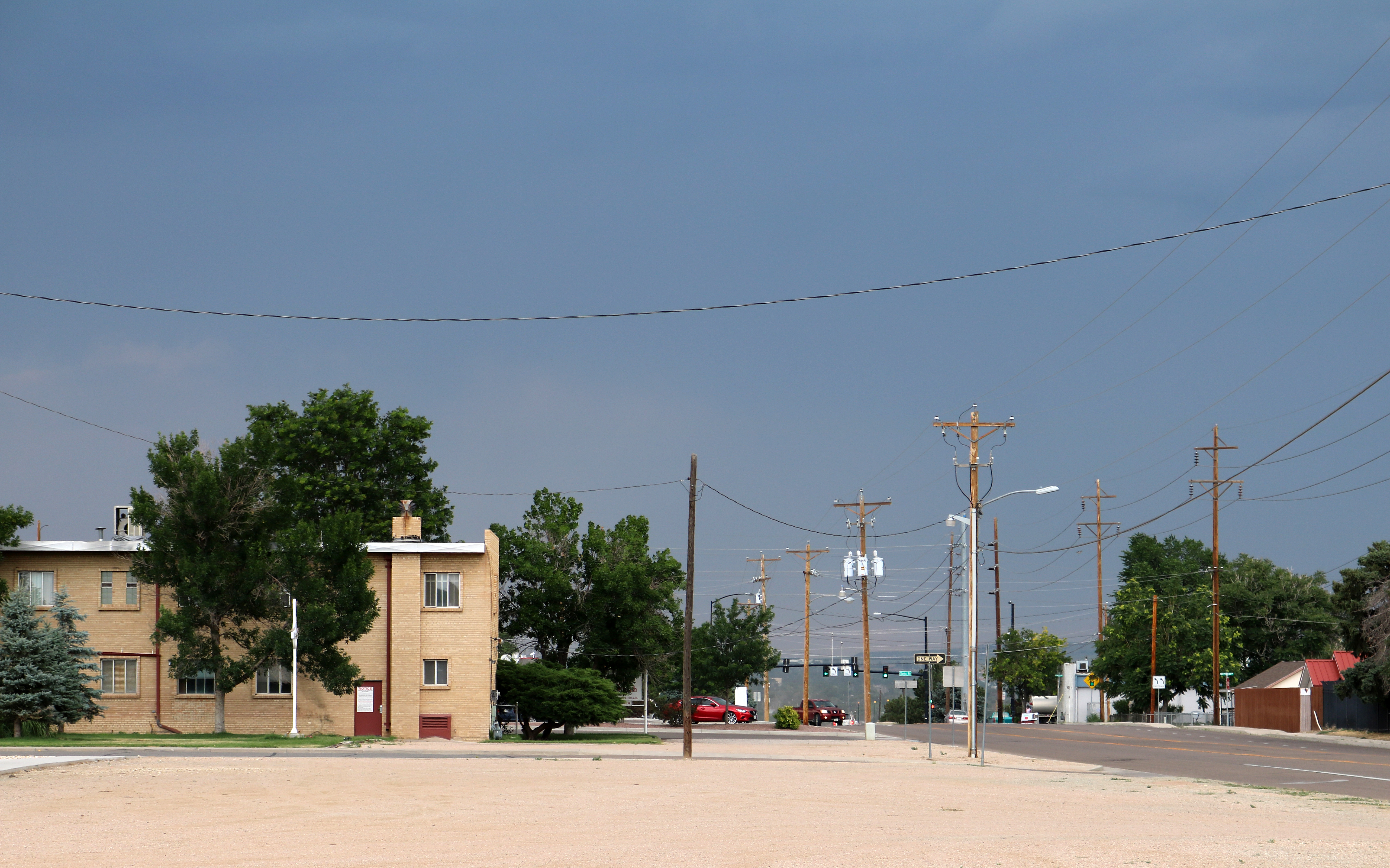 A view of Salt Creek, Colorado, a census-designated place in Pueblo County. The view is to the north along South Aspen Road towards Santa Fe Drive.